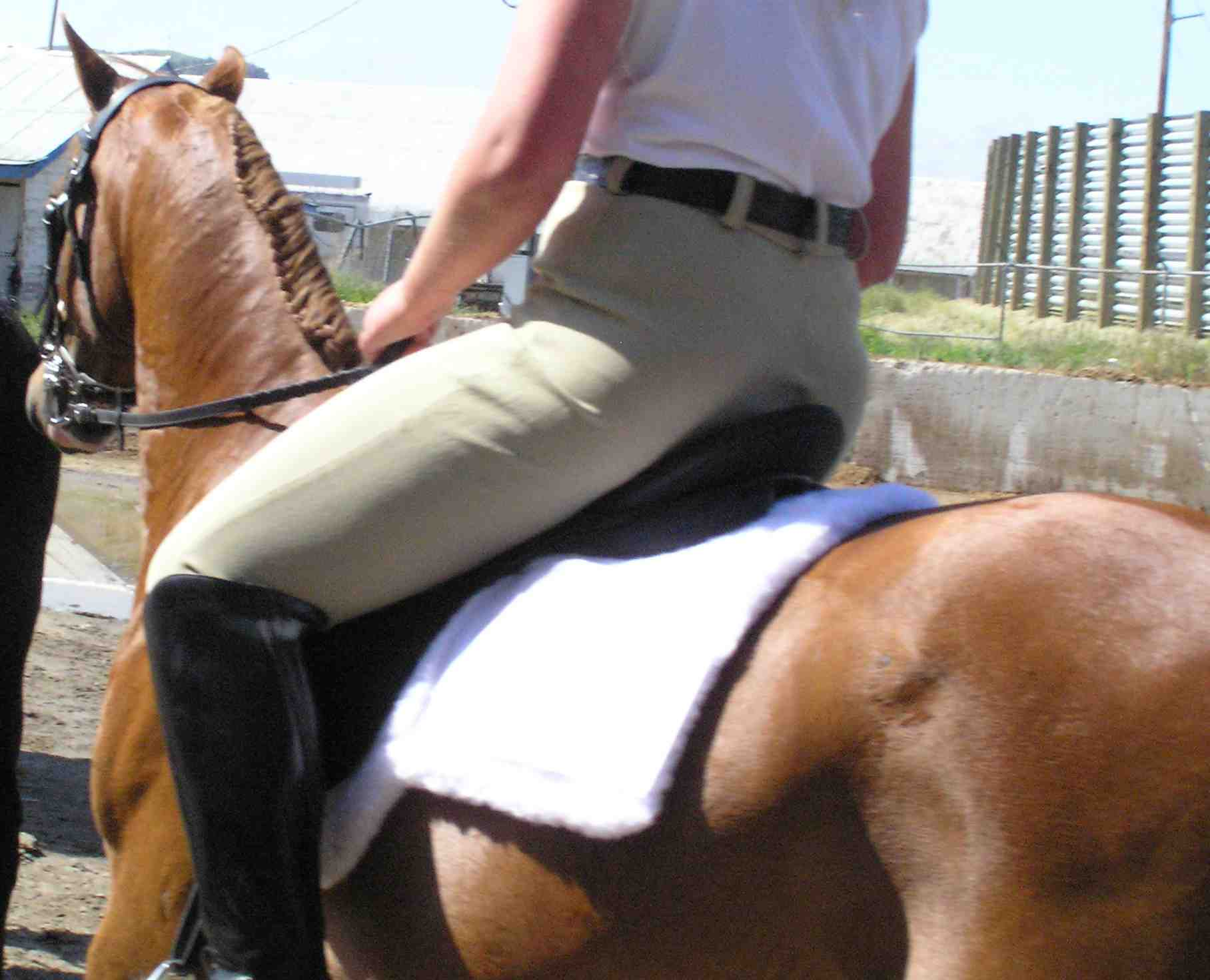 Rear view of a rider sitting on a horse in an English saddle